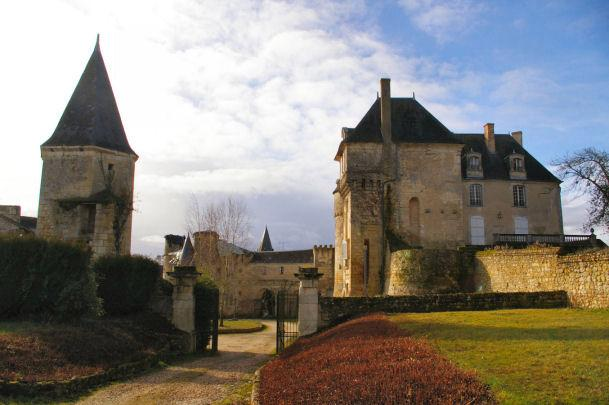 Le chateau de La Celle-Guenand through East Gate